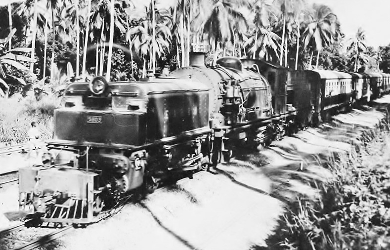 East African Railways 58 class Garratt locomotive no. 5803 at Changamwe, Kenya, with the Mombasa to Kampala mail train.